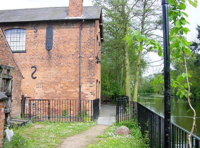 Forge Mill Needle Museum and Mill Pond. The museum is housed in this Victorian water-powered needle polishing factory (scouring mill). The mill pond is about 180 metres long and 20 metres wide, fed by Batcheley Brook which, from the mill, flows into the river Arrow.